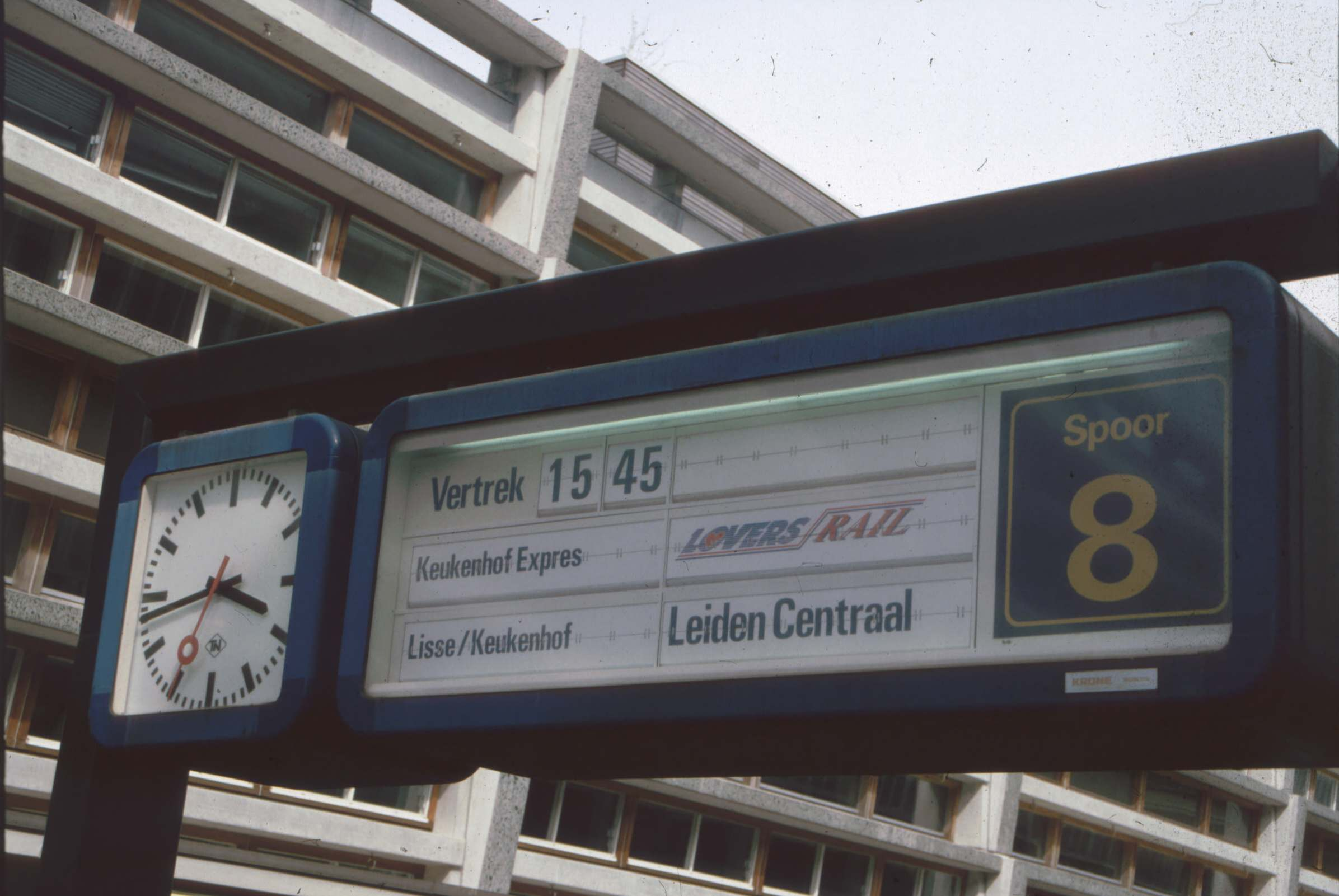 Signbord of Lovers Rail, former Dutch Railway